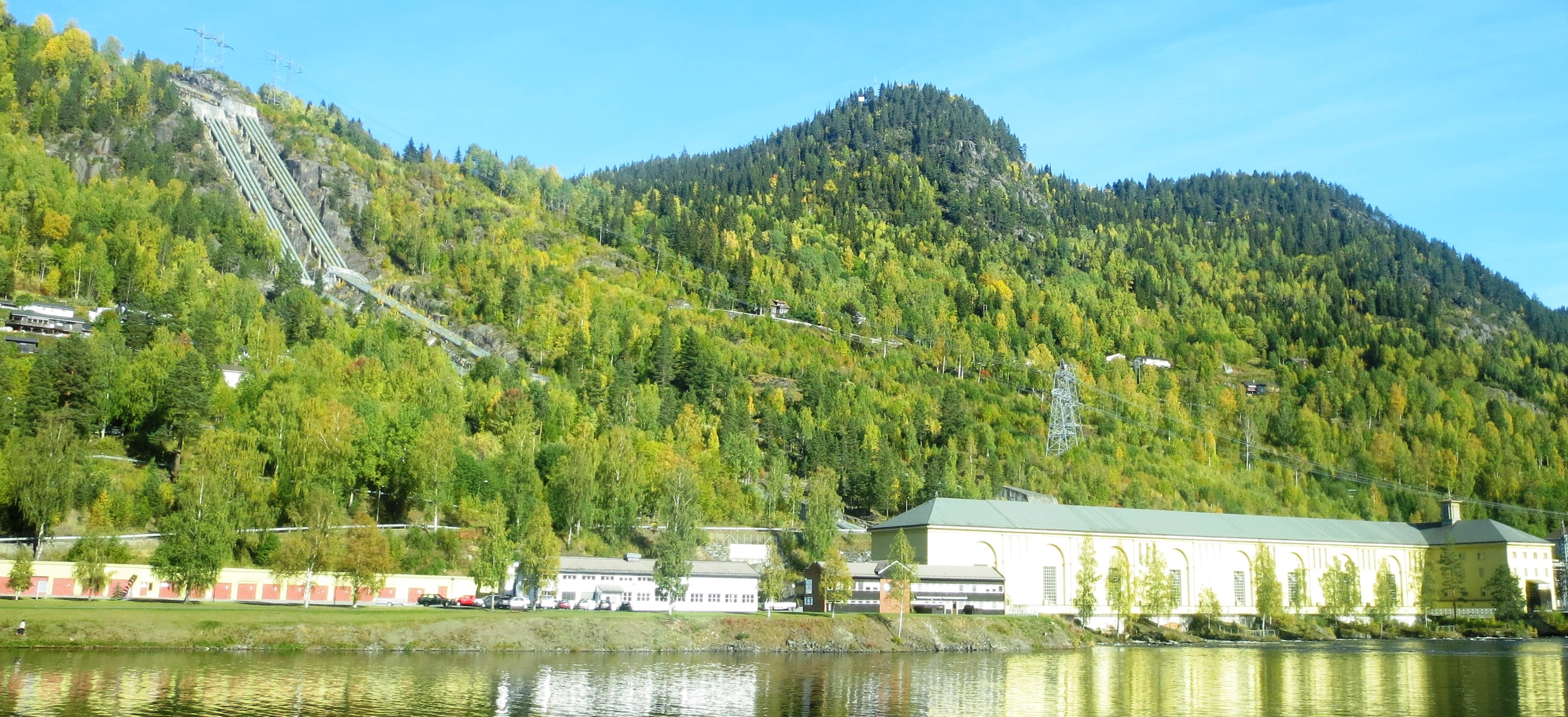 Nore Kraftverk (Nore Hydroelectric Power Station) Number I was built in 1921, and the first Power plant in Numedalen valley, Buskerud, Norway